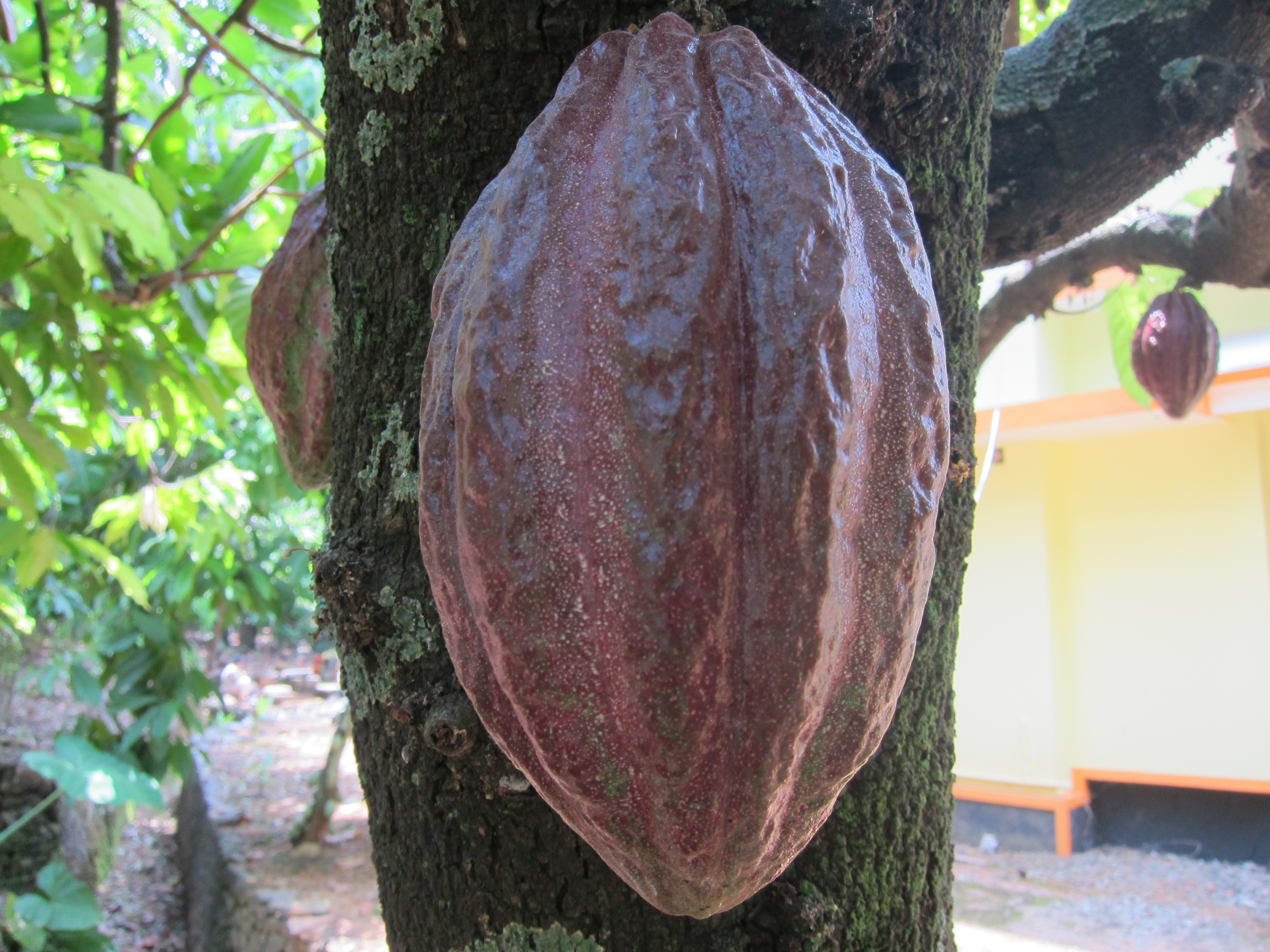 Coco in Violet Color